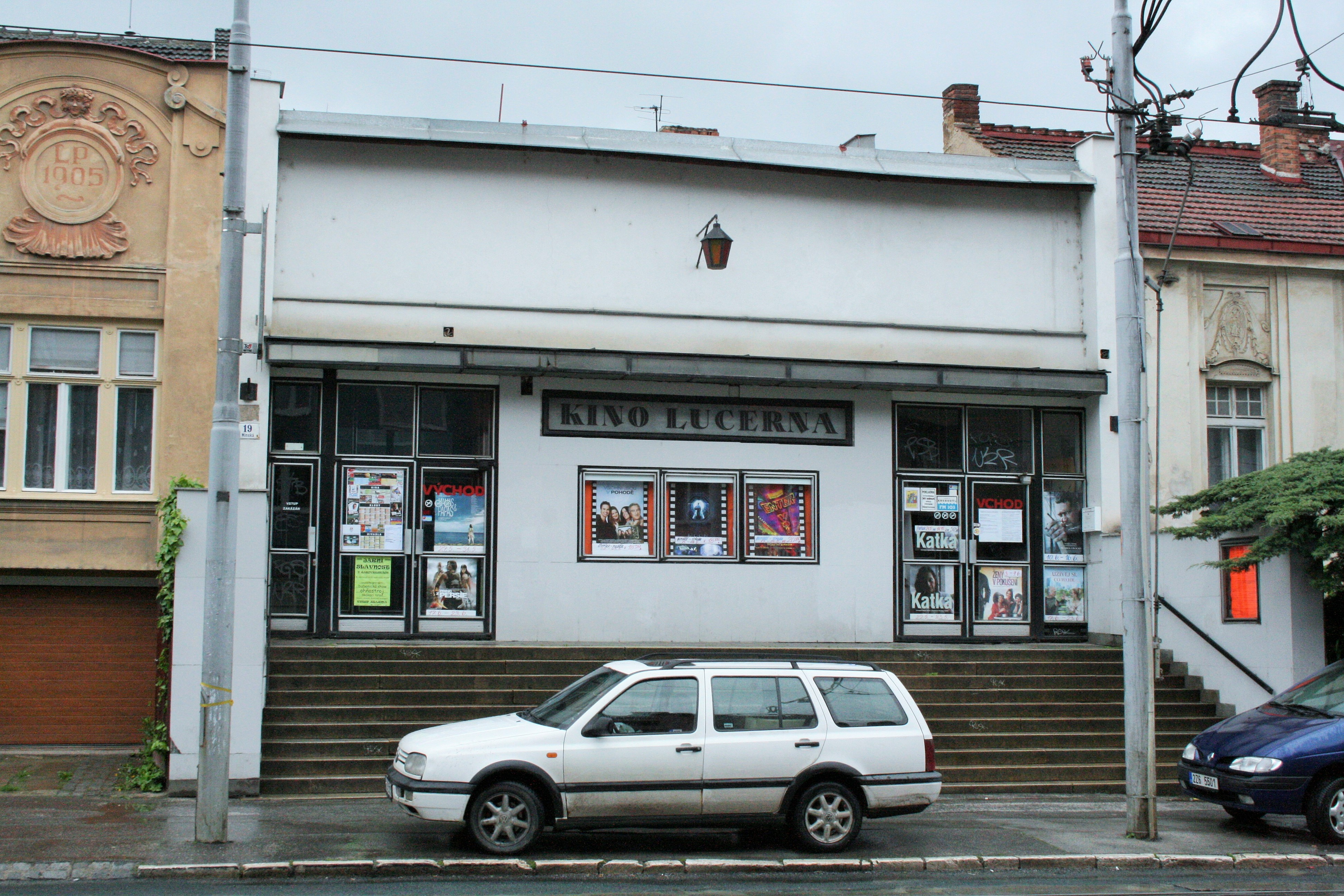 Lucerna cinema in Brno, Czech Republic.